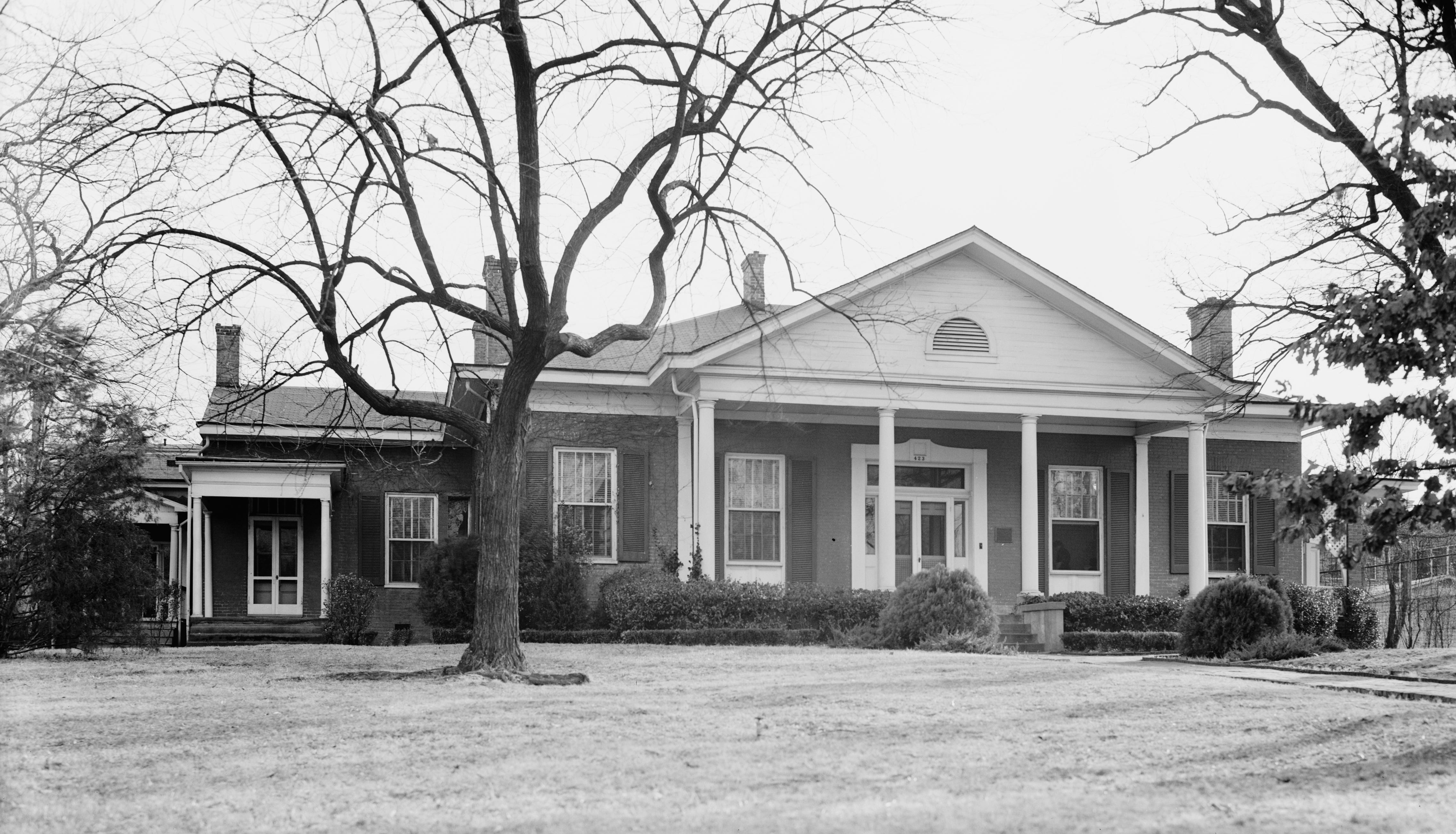 Front of Trapnall Hall, located at 423 E. Capitol Avenue in Little Rock, Arkansas, United States. Built in 1843, it is listed on the National Register of Historic Places.